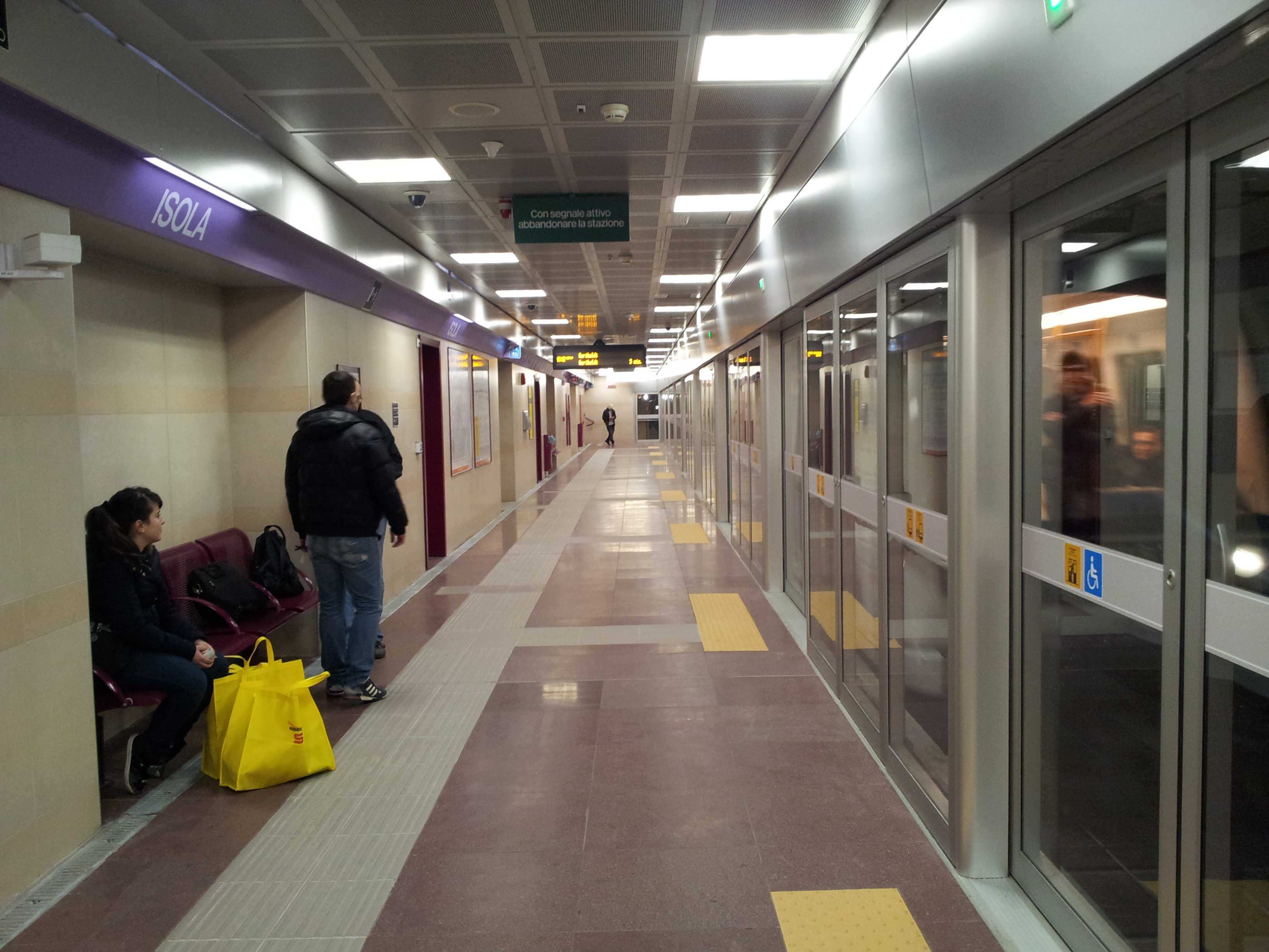 Platform of Isola station of Milan Metro Line 5.